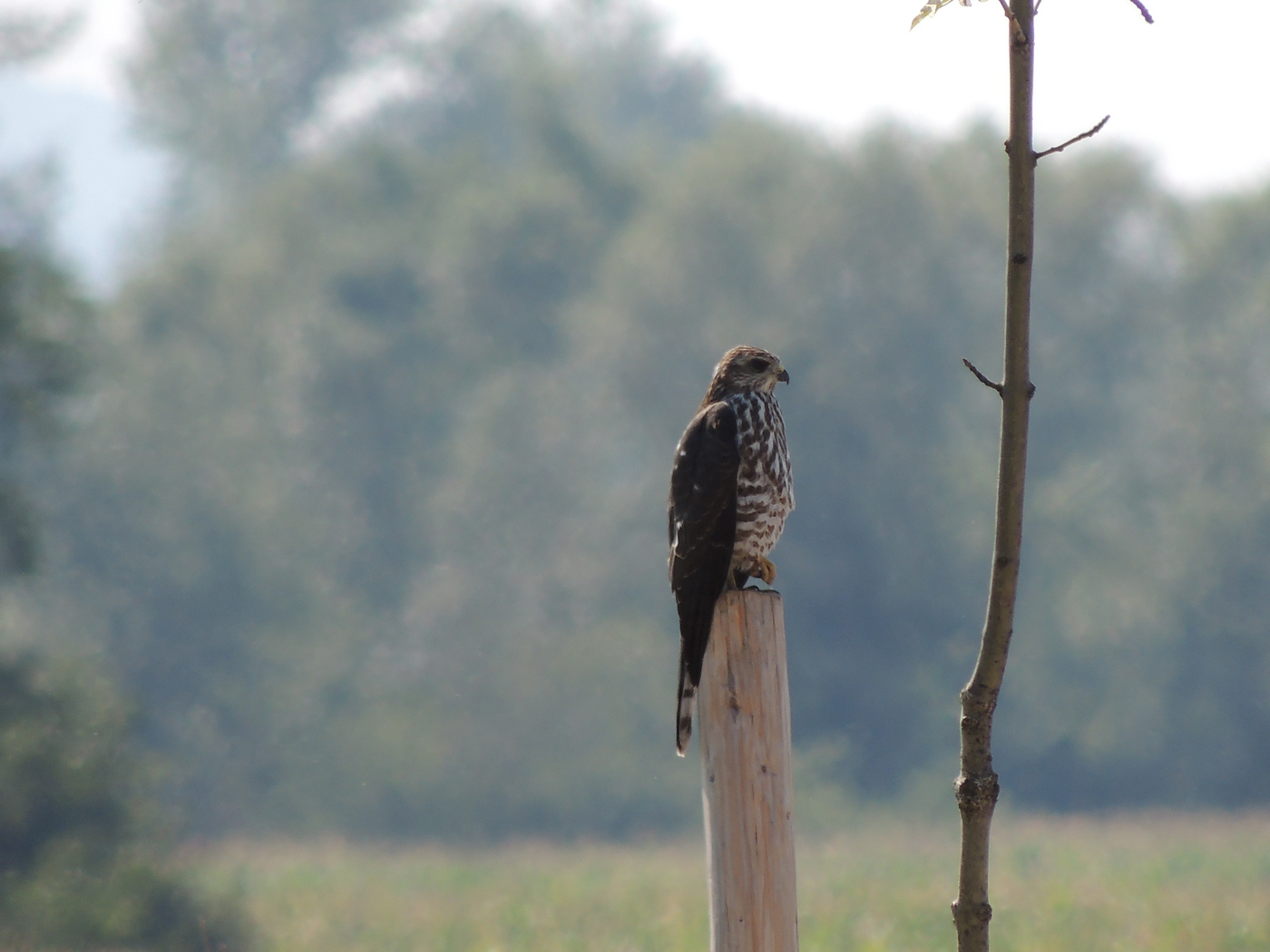 Levant sparrowhawk